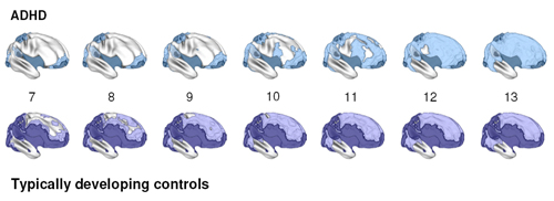 Maturation of the brain, as reflected in the age at which a cortex area attains peak thickness, in ADHD (above) and normal development (below). Lighter areas are thinner, darker areas thicker. Light blue in the ADHD sequence corresponds to the same thickness as light purple in the normal development sequence. The darkest areas in the lower part of the brain, which are not associated with ADHD, had either already peaked in thickness by the start of the study, or, for statistical reasons, were not amenable to defining an age of peak cortex thickness. Movie of same data below. Source: NIMH Child Psychiatry Branch[1]